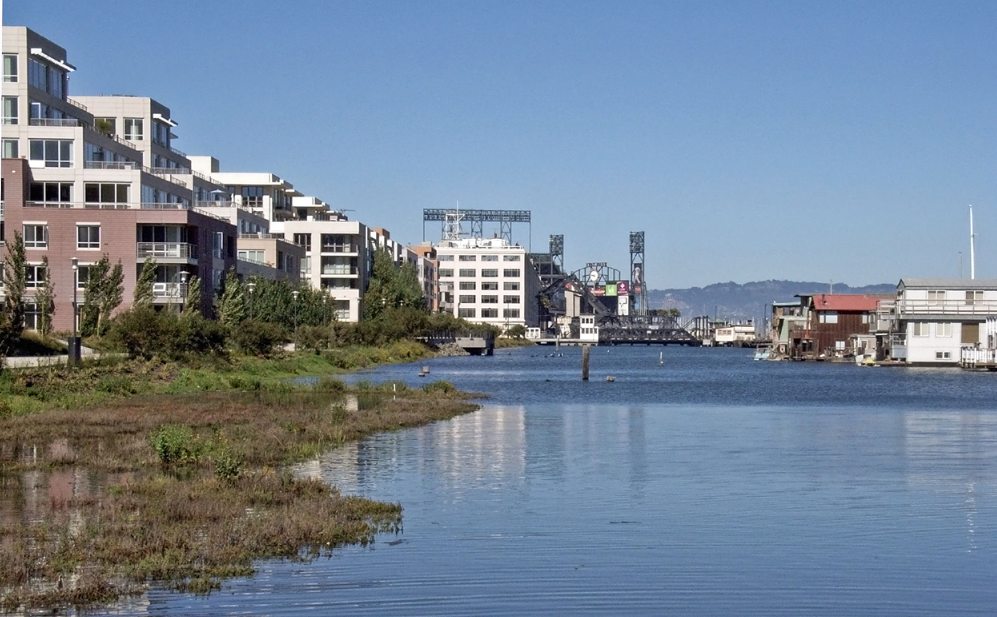 Mission Creek, aka China Basin Channel, has a "restored" water edge along the Mission Bay North frontage beyond the usual riverwalk. The ballpark terminates the view, and houseboats remain (for how much longer?) at right.